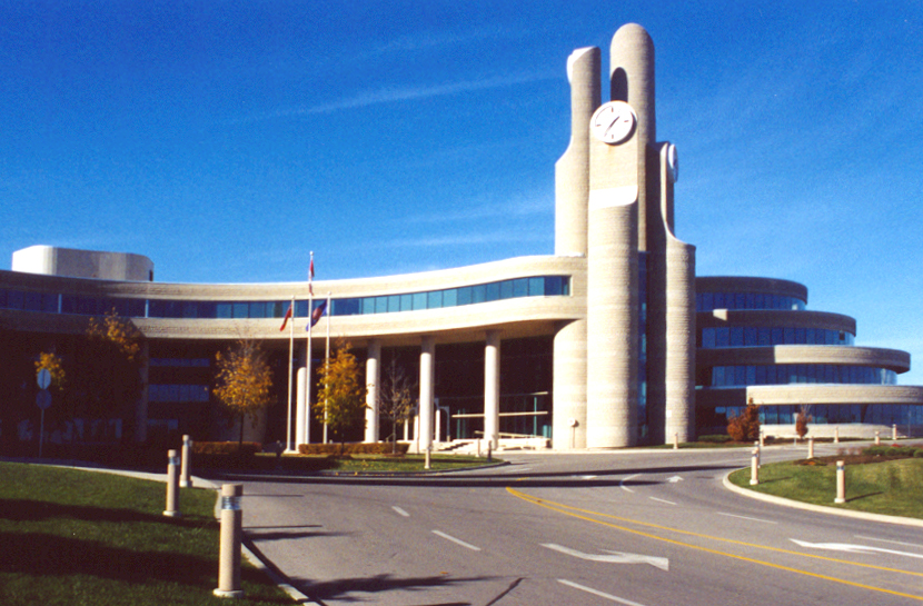 York Region Administrative Centre, Newmarket, Ontario, Canada. The building was completed in 1993. It was designed by Canadian architect: Douglas Cardinal.